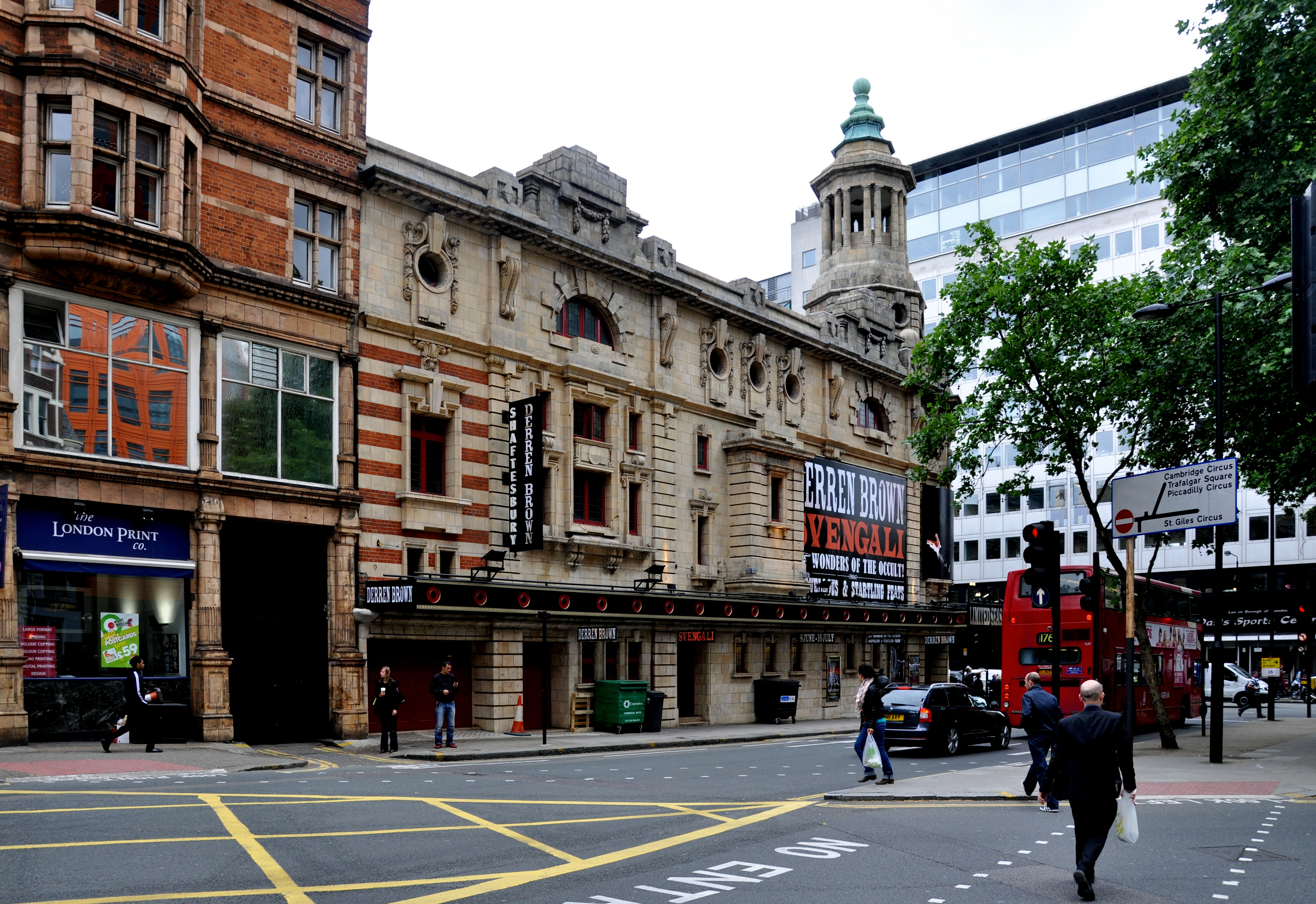 London, Shaftesbury Theatre, showing Derren Brown's "Svengali"